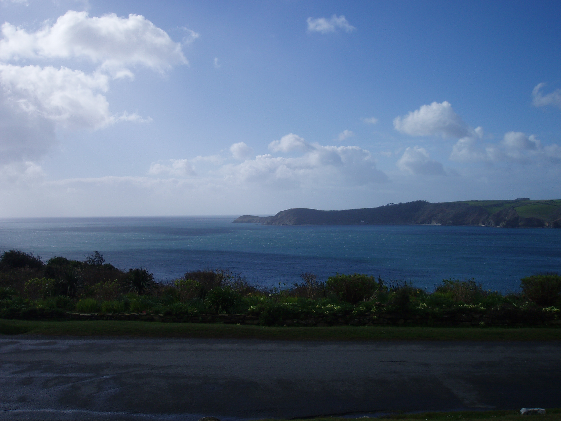 St Austell Bay and Black Head headland. Cornwall, UK.